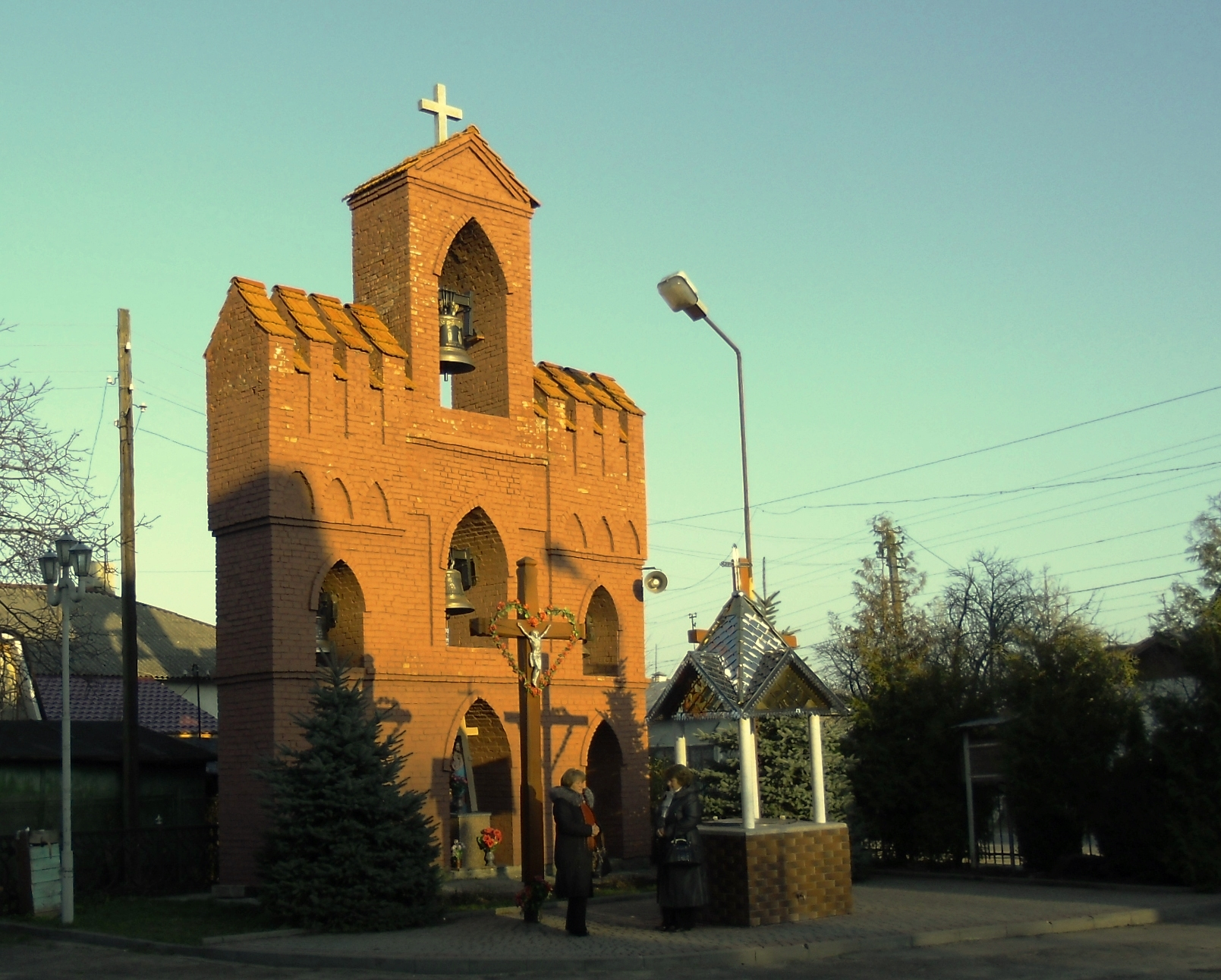 The bell tower of the Church of St. Anna. Boryslav.